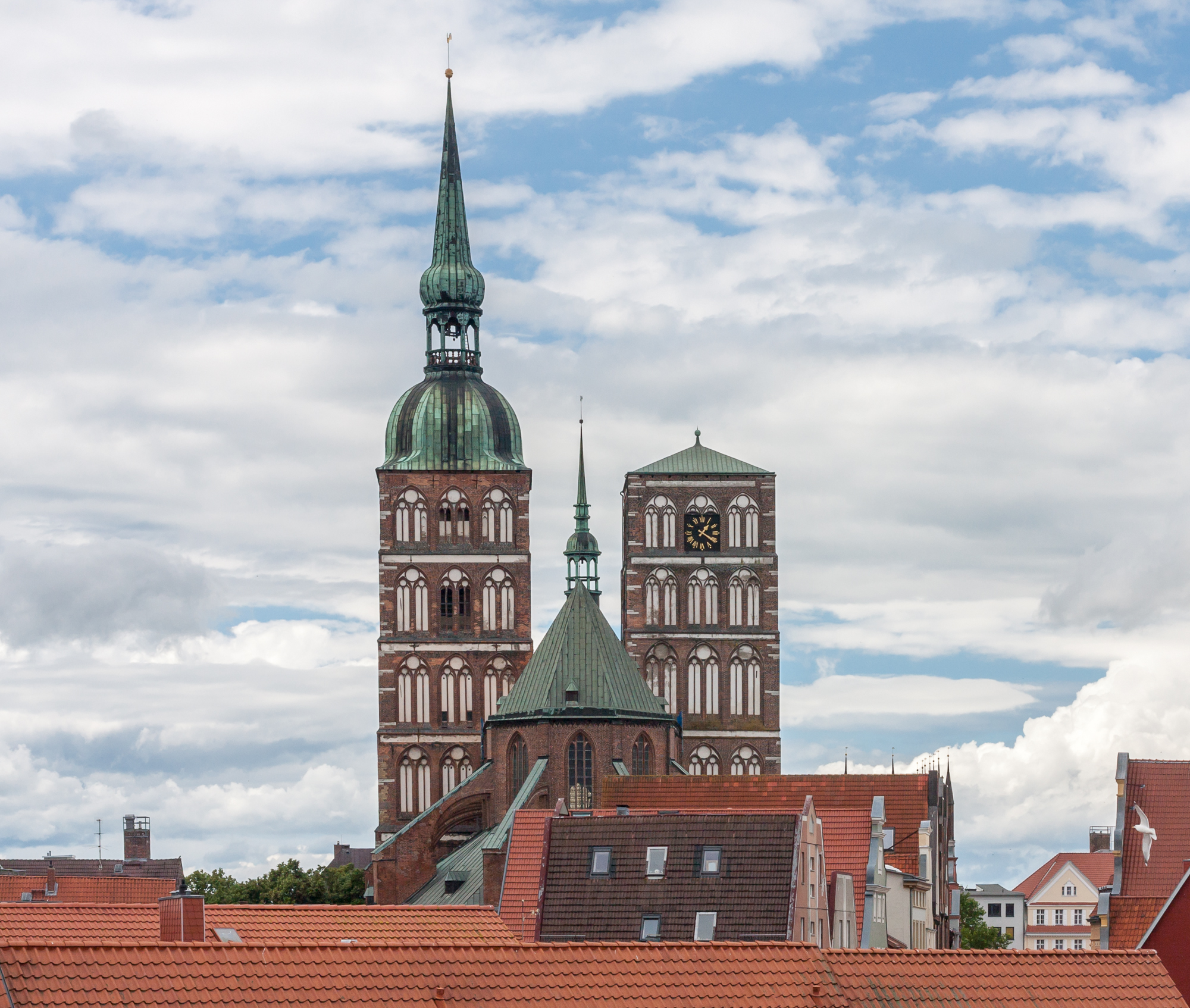 Nikolaikirche Stralsund, Germany